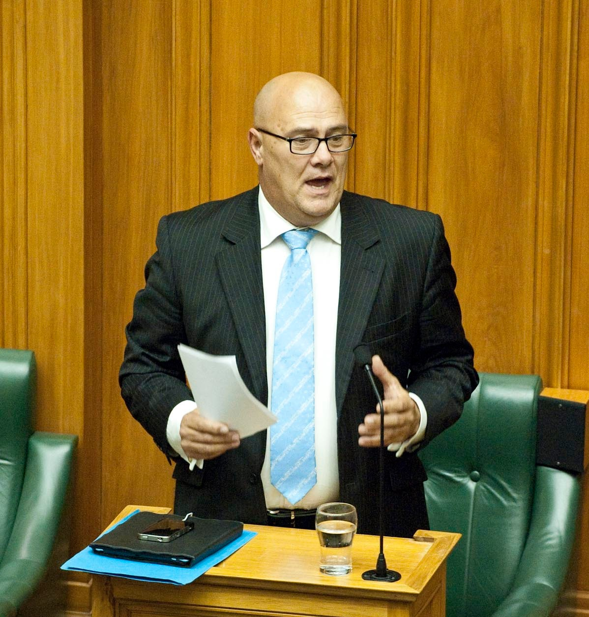 Pacific Parliamentary and Political Leaders Forum, 2013 : New Zealand Parliamentary Debate on Pacific Issues. Hon Tau Henare, National Party.